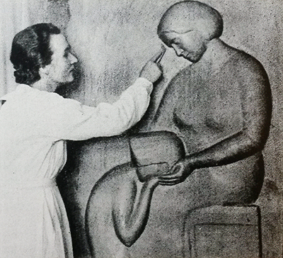 Latvian sculptor Marta Lange working on memorial sculpture "Mother" in 1938.